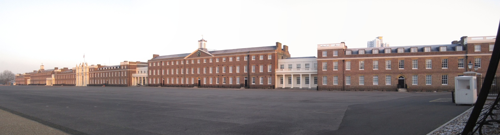 Royal Artillery Barracks Main Building